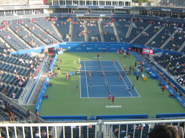 Rogers Cup Toronto, 2012. Serbian Novak Đoković against Australian Bernard Tomić. Moments before Mach